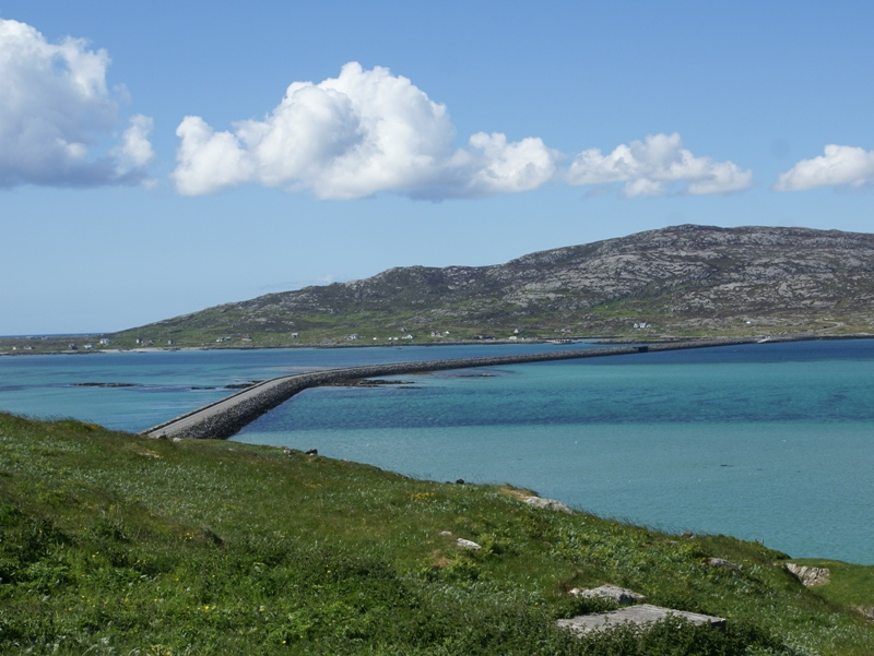 Eriskay, Outer Hebrides, Scotland - causeway between Eriskay and South Uist, seen from Eriskay